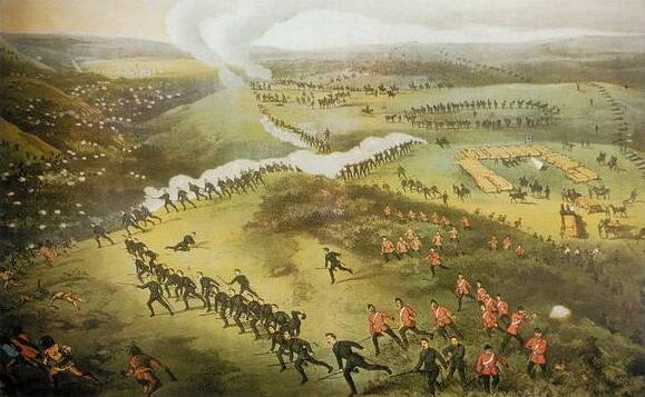 The Battle of Cut Knife. Contemporary lithograph from "The Canadian Pictorial and Illustrated War News", 1885.